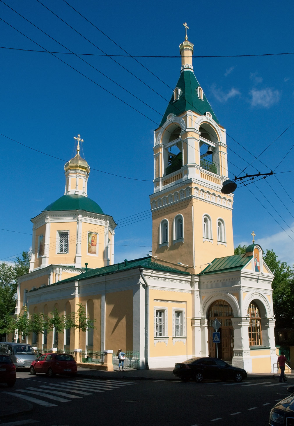 Church of Elijah the Prophet in Obydensky lane, Moscow